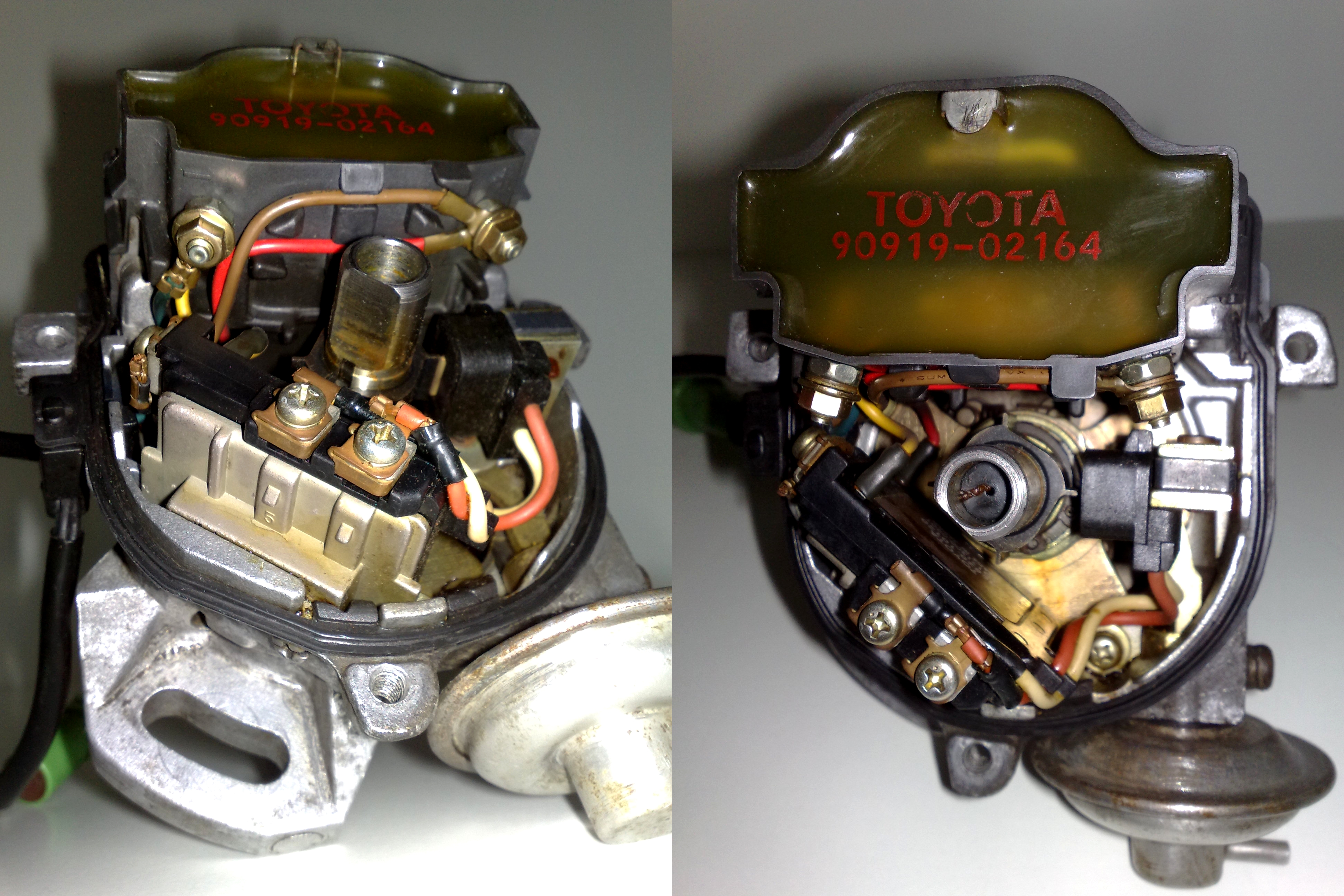 Toyota IIA (Integrated Ignition Assembly) from Toyota 4A engine. Distributor cap and cover taken off. Most electrical components (Ignition coil, Igniter, Magnetic Sensor) can be seen.